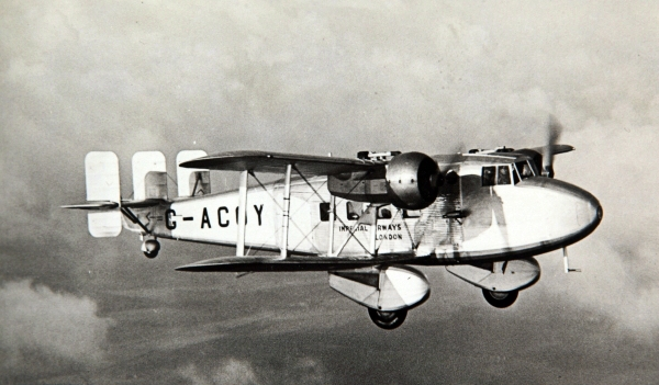 A Boulton Paul P.71A